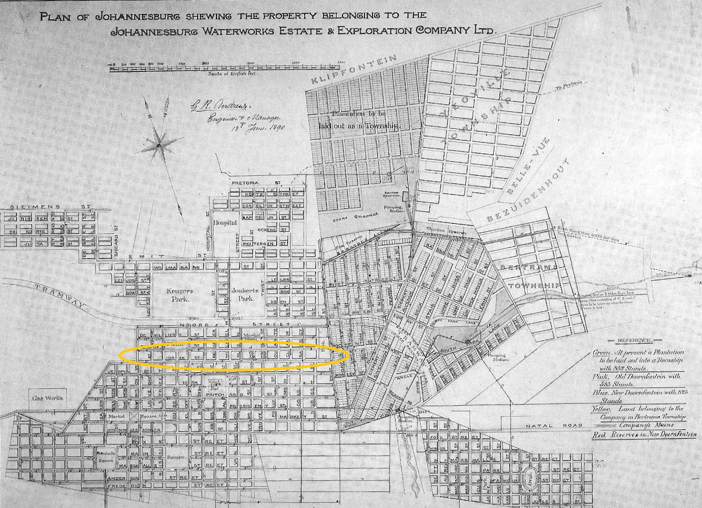 Map of Johannesburg dated 1890 (four years after the discovery of gold and the founding of the city). The area highlighted in yellow shows north-south streets having a "kink" when they cross Bree Street. It has been suggested[1] that this was due to Cape feet being used by the surveyors who laid out the area north of Bree Street and English feet being used south of Bree Street. (1.033 English feet = 1 Cape foot). This has however been denied by historian GA Leyds (nephew of the former South African Republic State Attorney W.J. Leyds).[2] References ↑ Frescura, Franco. Diary of Historical Dates for Johannesburg 1806-1976. .za. Retrieved on 30 December 2016. ↑ Why Bree Street has that kink. City of Johannesburg (2003-01-06). Retrieved on 30 December 2016.